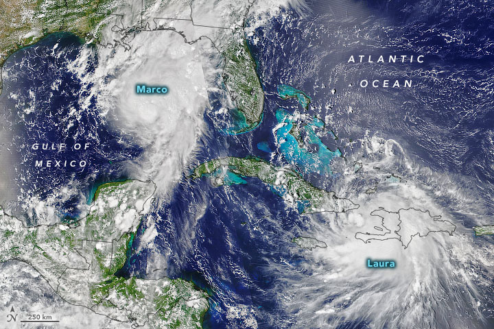 On August 24, 2020, the twelfth and thirteenth named tropical storms of the unusually active 2020 Atlantic hurricane season bore down on the U.S. Gulf Coast. The Visible Infrared Imaging Radiometer Suite (VIIRS) on NOAA-20 acquired this natural-color image of the two storms on August 23, 2020.